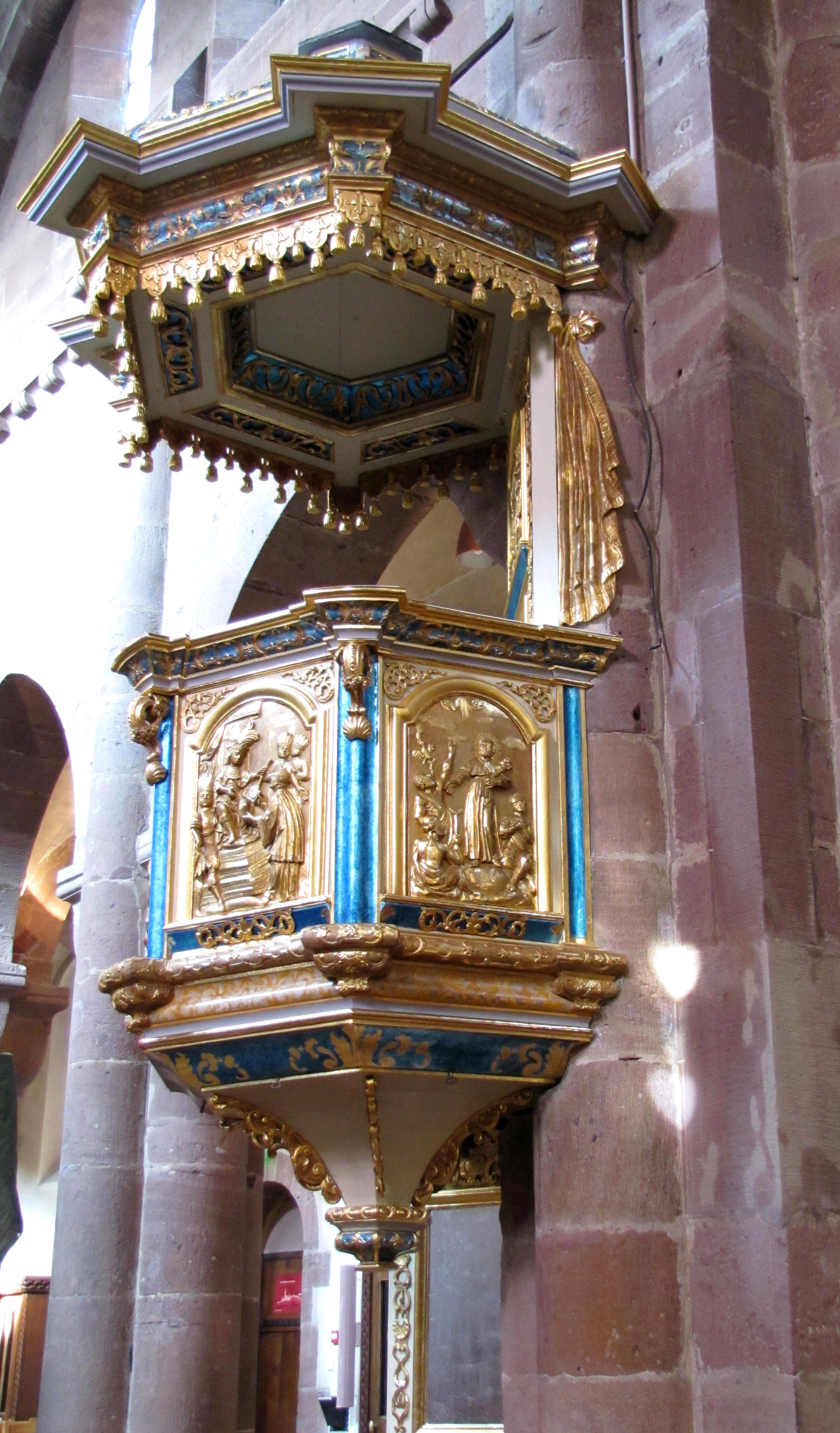 Alsace, Bas-Rhin, Sélestat, Église Sainte-Foy (PA00084981, IA00124586). Chaire baroque (1733) après restauration: This object is classé Monument Historique in the base Palissy, database of the French furniture patrimony of the French ministry of culture, under the references PM67000315 and IM67008610.